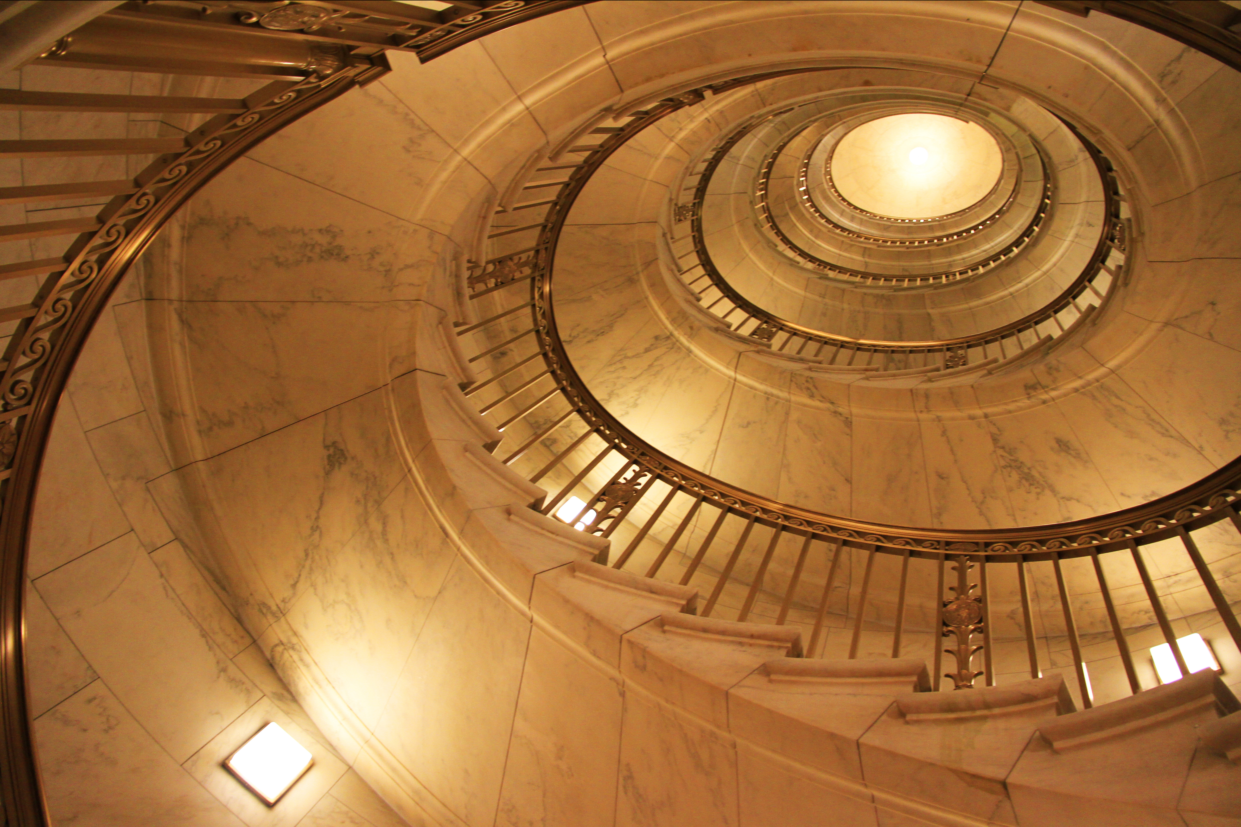 Supreme Court of the United States